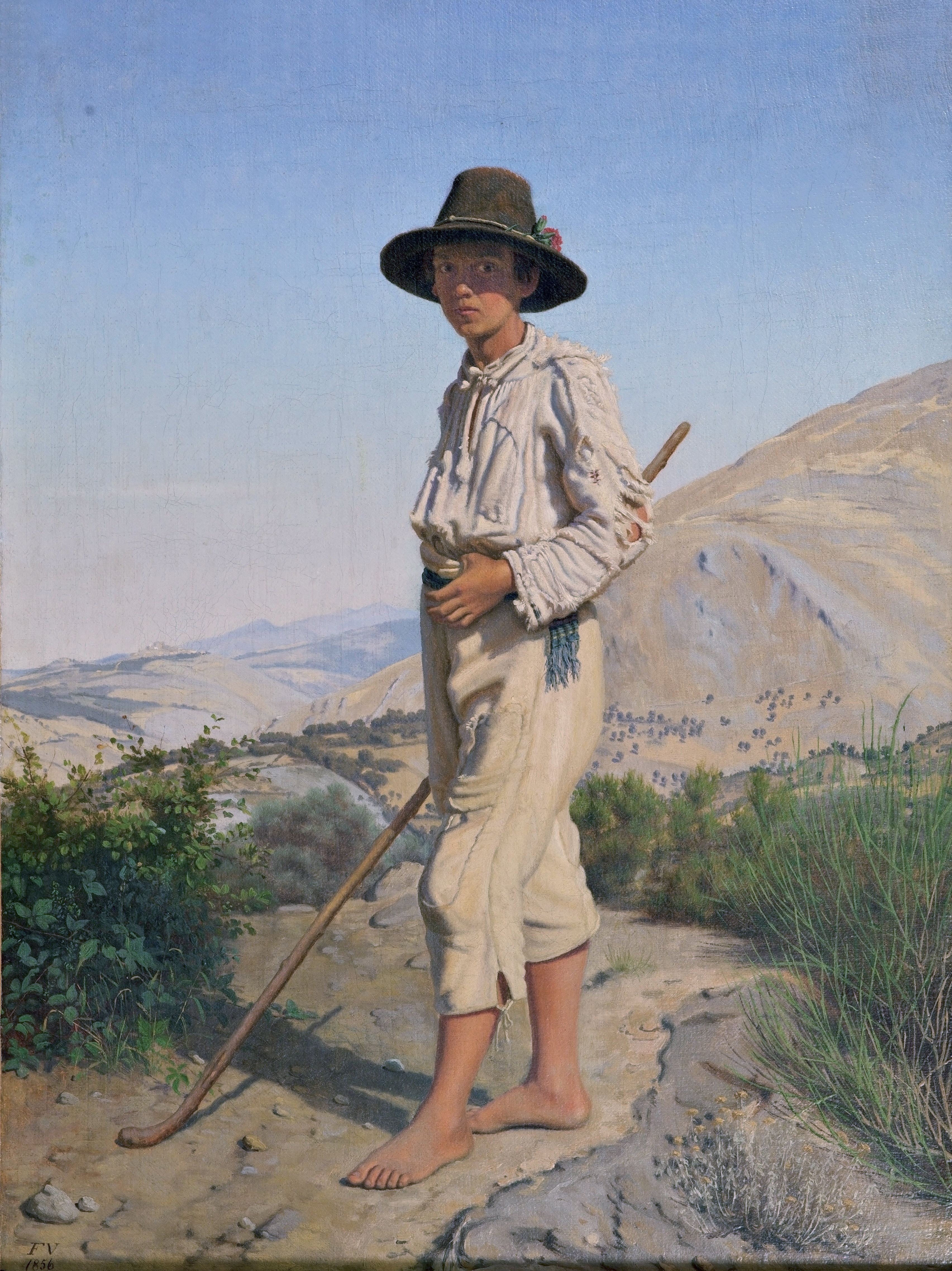 An Italian shepherd boy oil on canvas 50 x 38 cm signed b.l.: FV / 1856